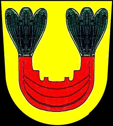 Coat of Arms of Bonde Dynasty of SwedenPlace: Sweden